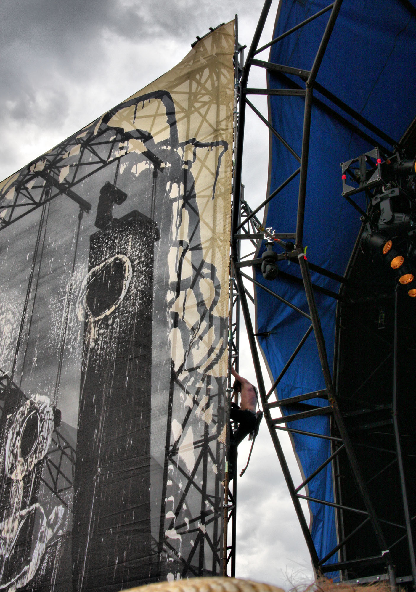 Airbourne performing at Big Day Out 2011